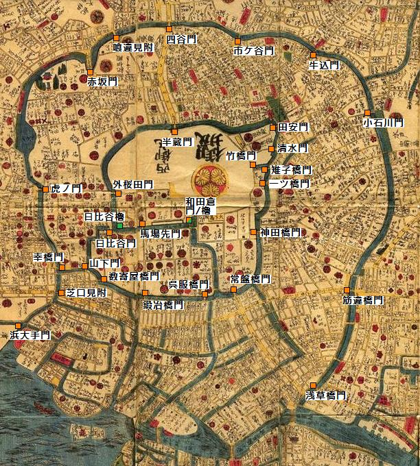 Arrangement of gate and tower in Edo castle (District on outside)